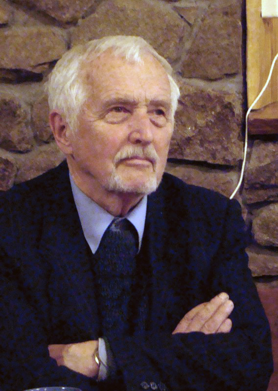 Bogusław Litwiniec in Bielice, 2008-04-19